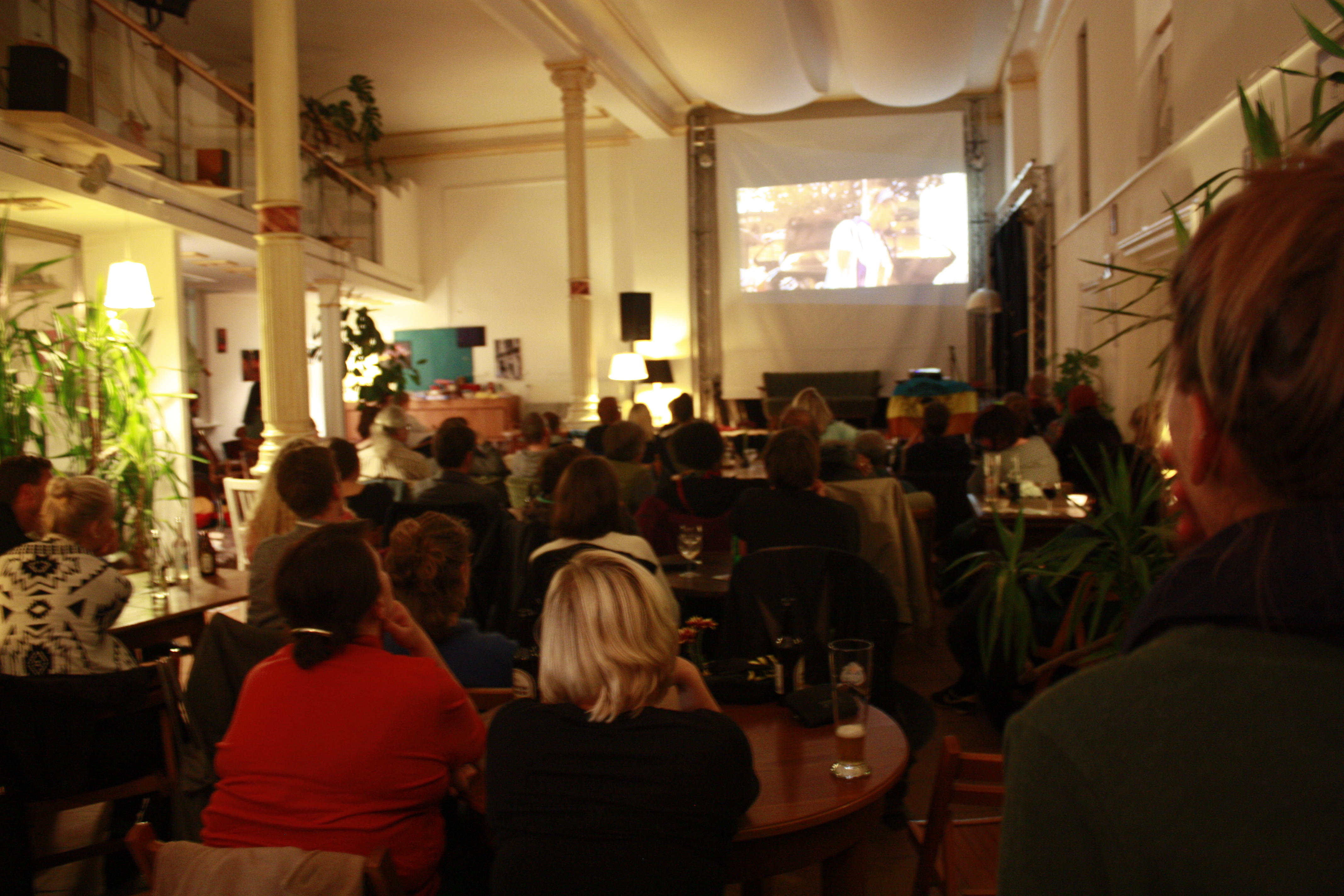 Public screening in Bremen